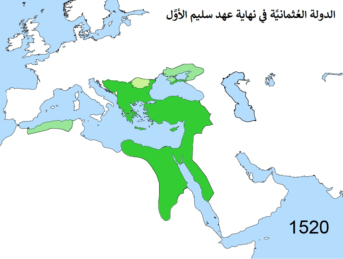 Territorial changes of the Ottoman Empire